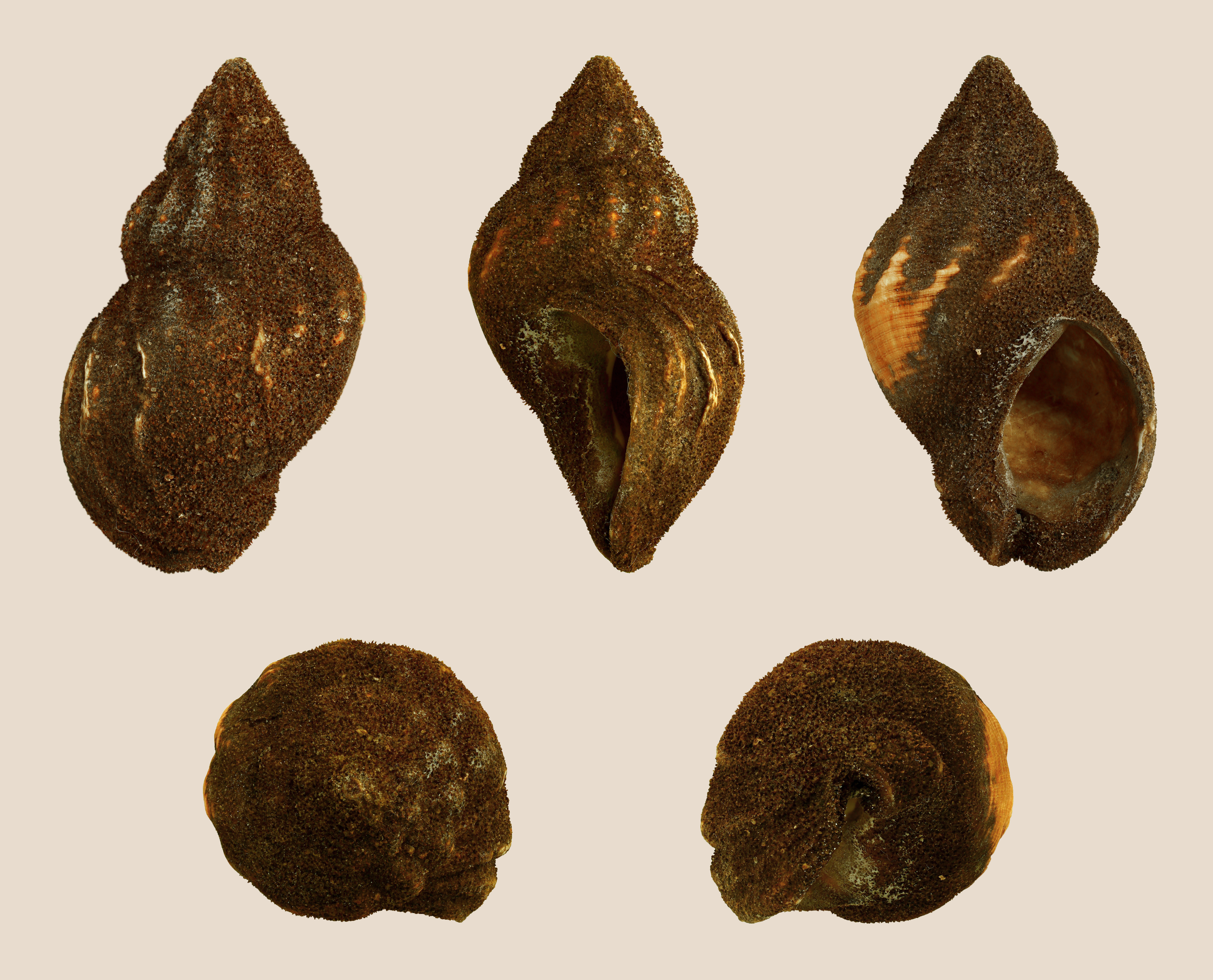 Shell of a Common Whelk with Snail Fur; Length of the shell 8.5 cm; Originating from Neuharlingersiel, Germany; Shell of own collection, therefore not geocoded.